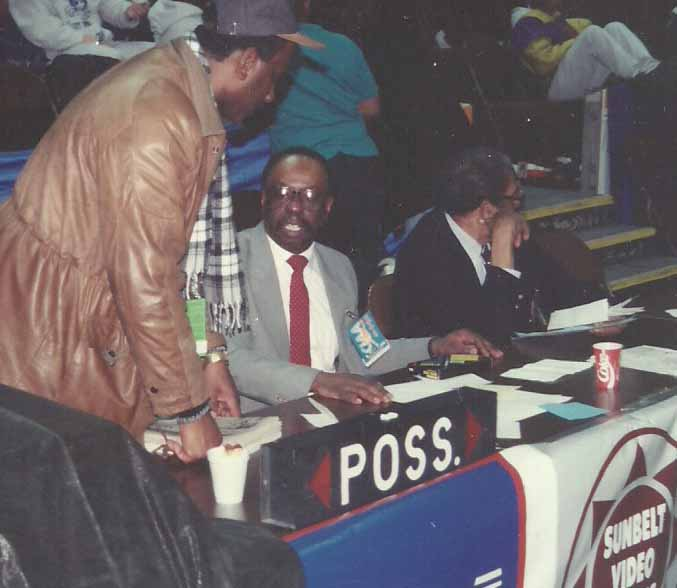 Ron Pinkney chatting with publisher of Black College Sports Reports, Edd Hayes